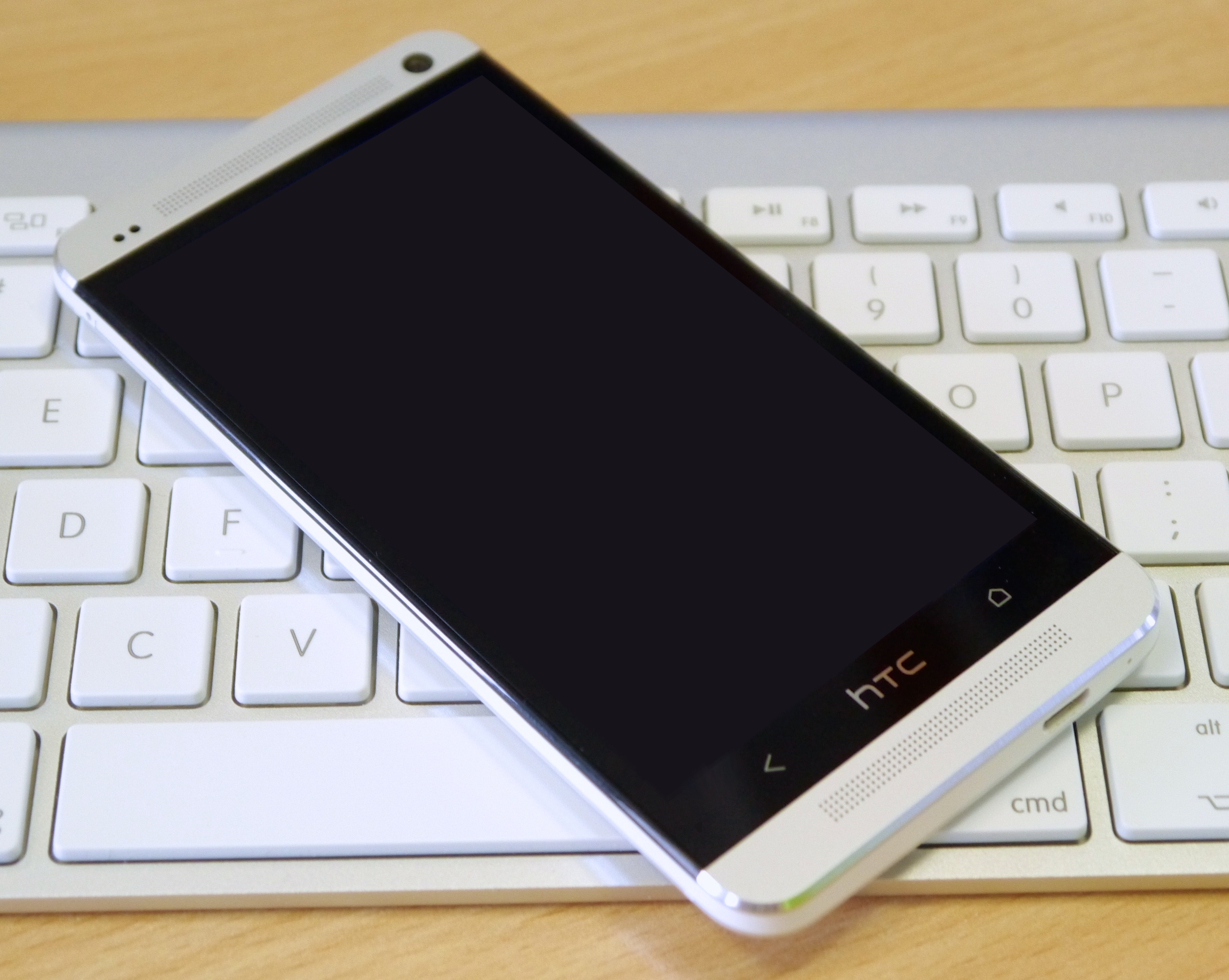 HTC One and Apple Keyboard.